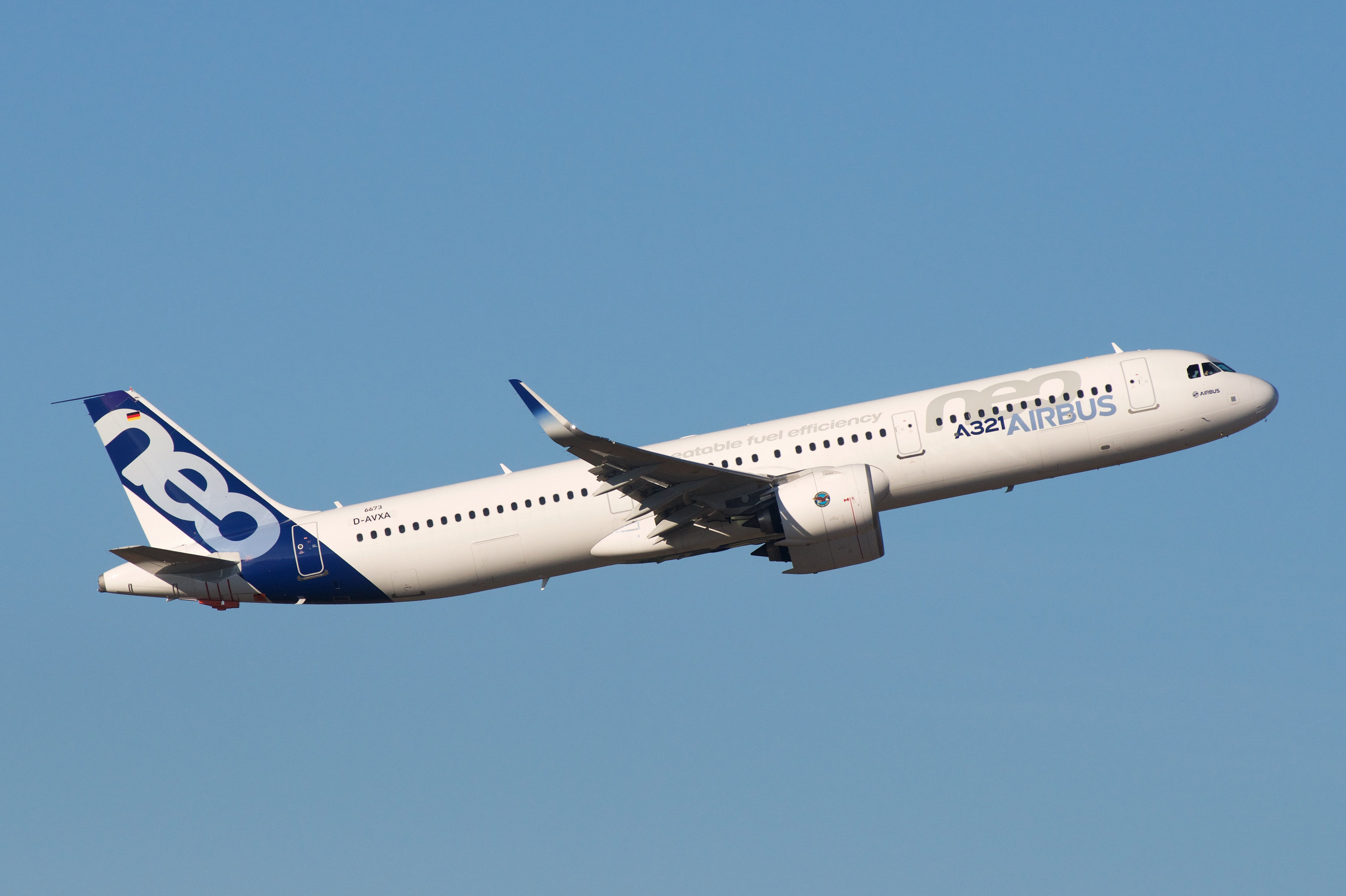 A321neo test-bed on a low gears-up departure from Toulouse.